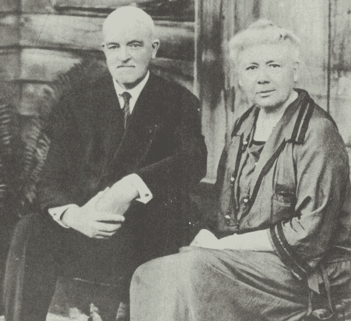 Goerge Peck Pierson (American, *1861, †1939) and Ida Goepp Pierson (American, *1862, †1937) in Kitami, Hokkaido, Japan